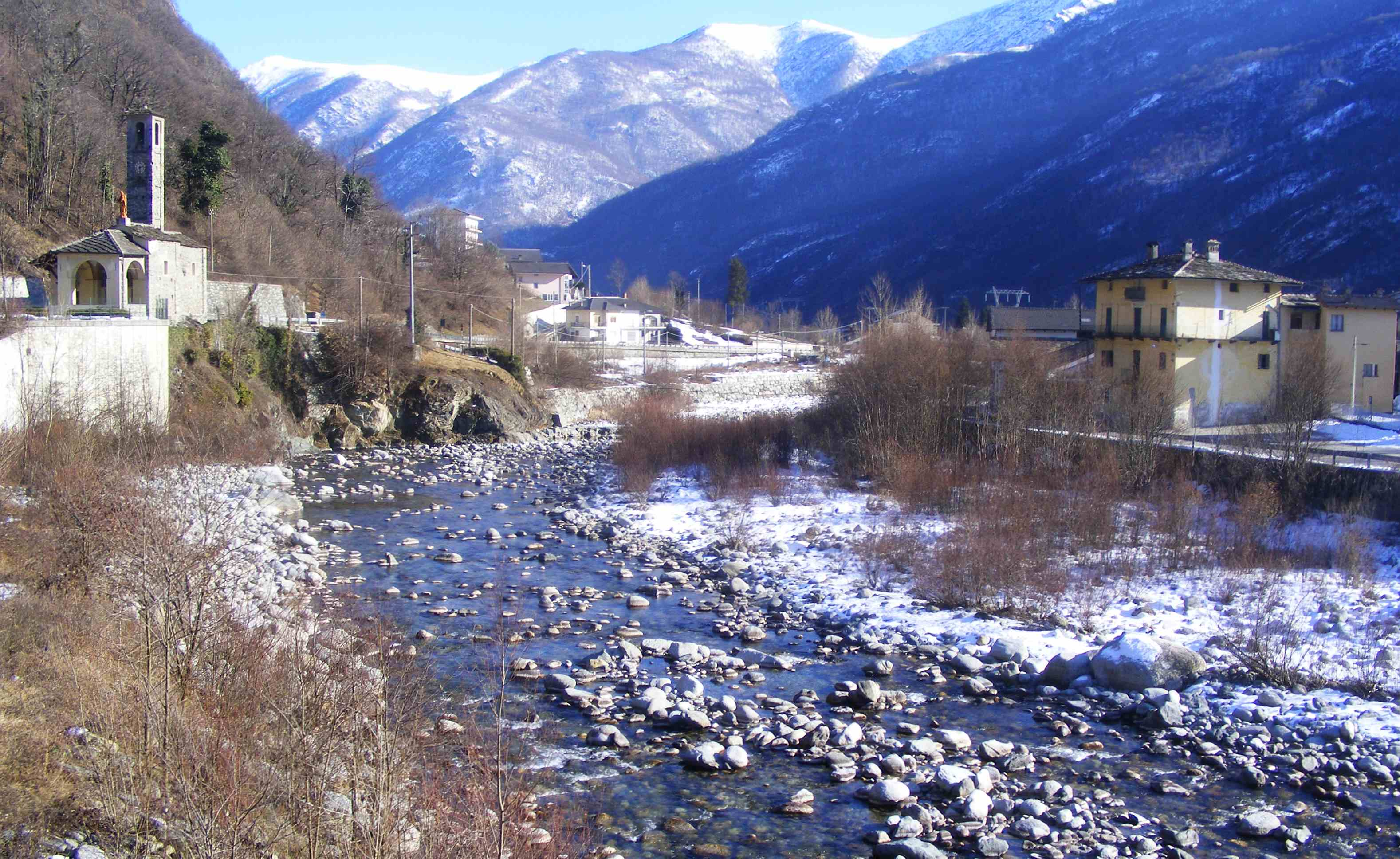 Orco creek at Locana, on the left Gurgo's church (TO, Italy)